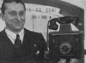 Domenico Mastini and his invention, the mobile phone (1935)